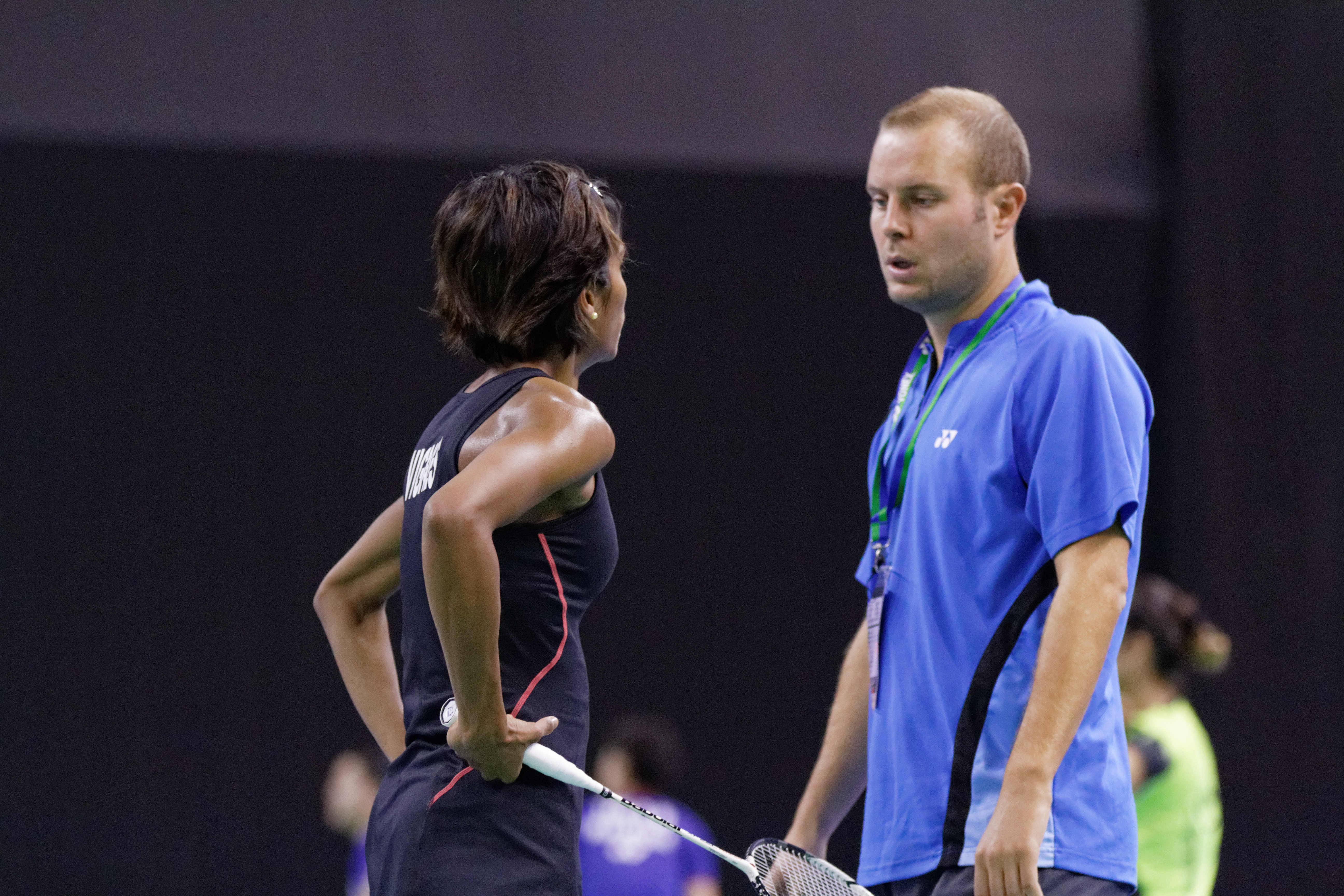 2013 French open. Women's singles eightfinal. Wang Shixian vs Sashina Vignes Waran.